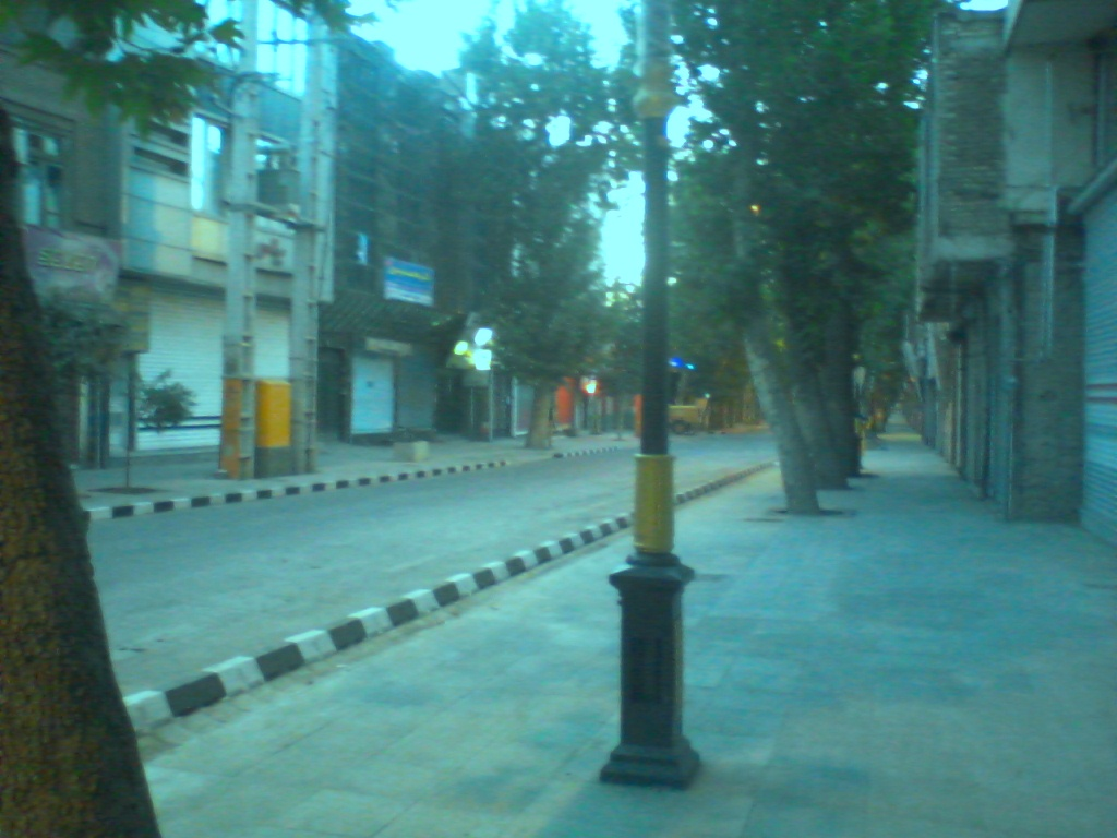 emam ave